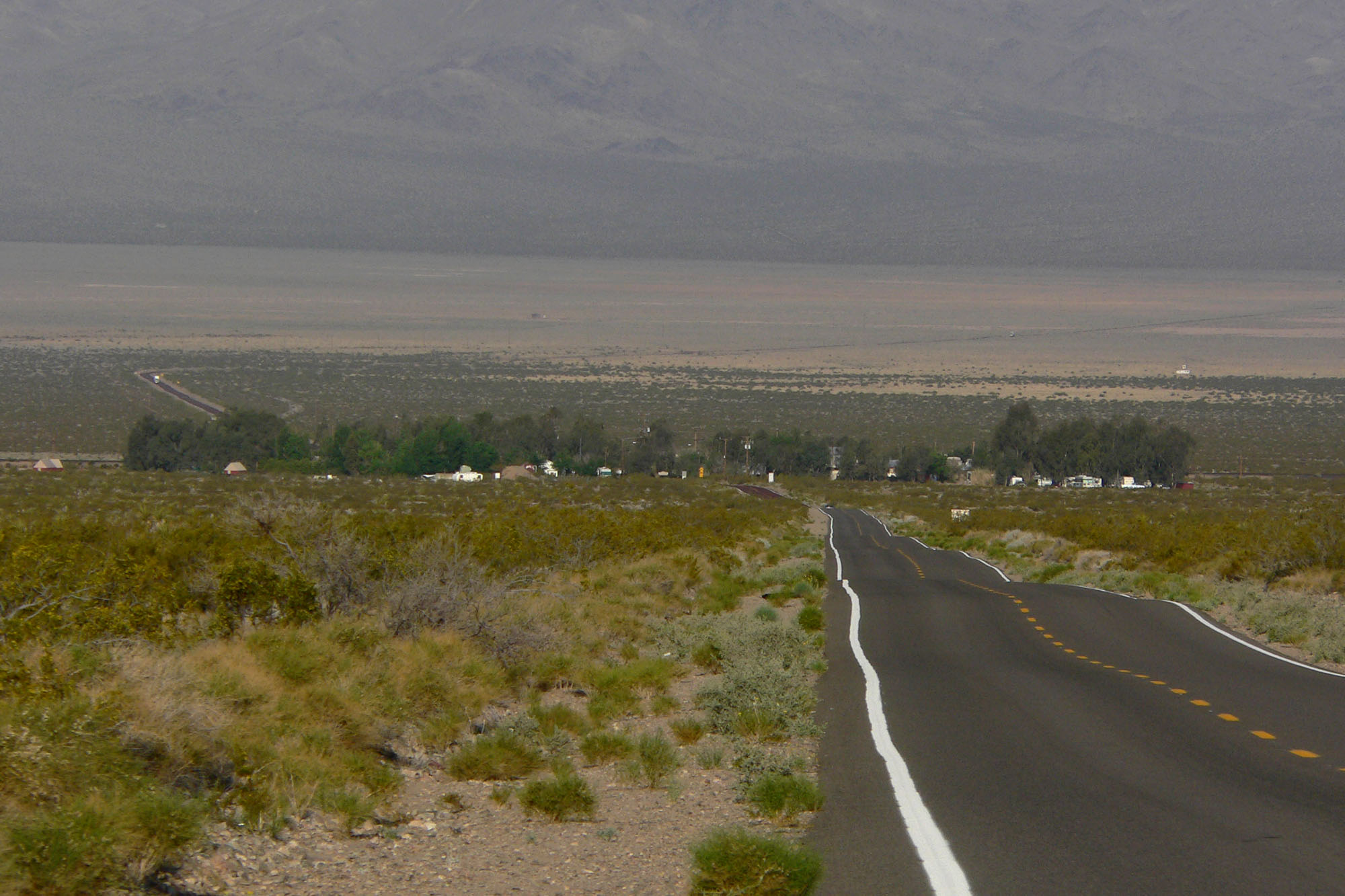 View of Nipton, California from the east